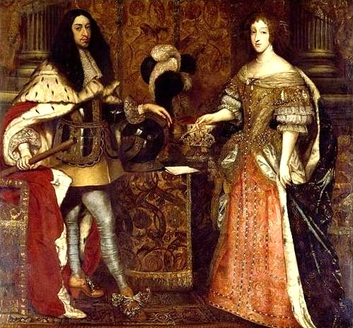 Ferdinand Maria, Elector of Bavaria (1636-1679) and his wife Princess Henriette Adelaide of Savoy (1636-1676).label QS:Len,"Ferdinand Maria, Elector of Bavaria (1636-1679) and his wife Princess Henriette Adelaide of Savoy (1636-1676)." label QS:Lde,"Kurfürst Ferdinand Maria (1636-1679) und seine Gemahlin Henriette Adelaide (1636-1676)."